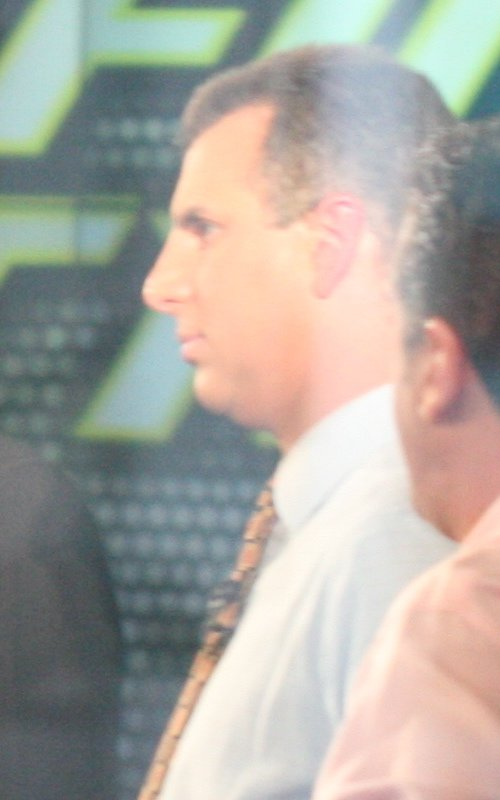 cropped photo of Guy Adami